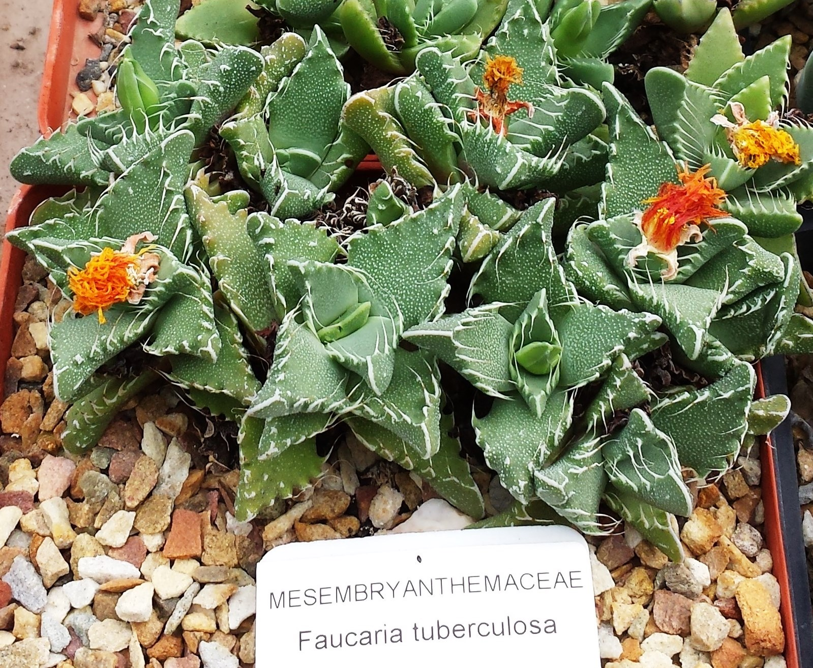 Faucaria tuberculosa - RSA